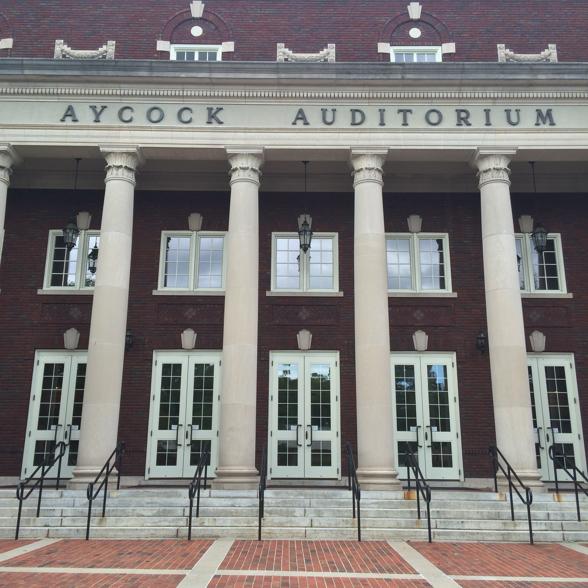 Aycock Auditorium at the University of North Carolina at Greensboro